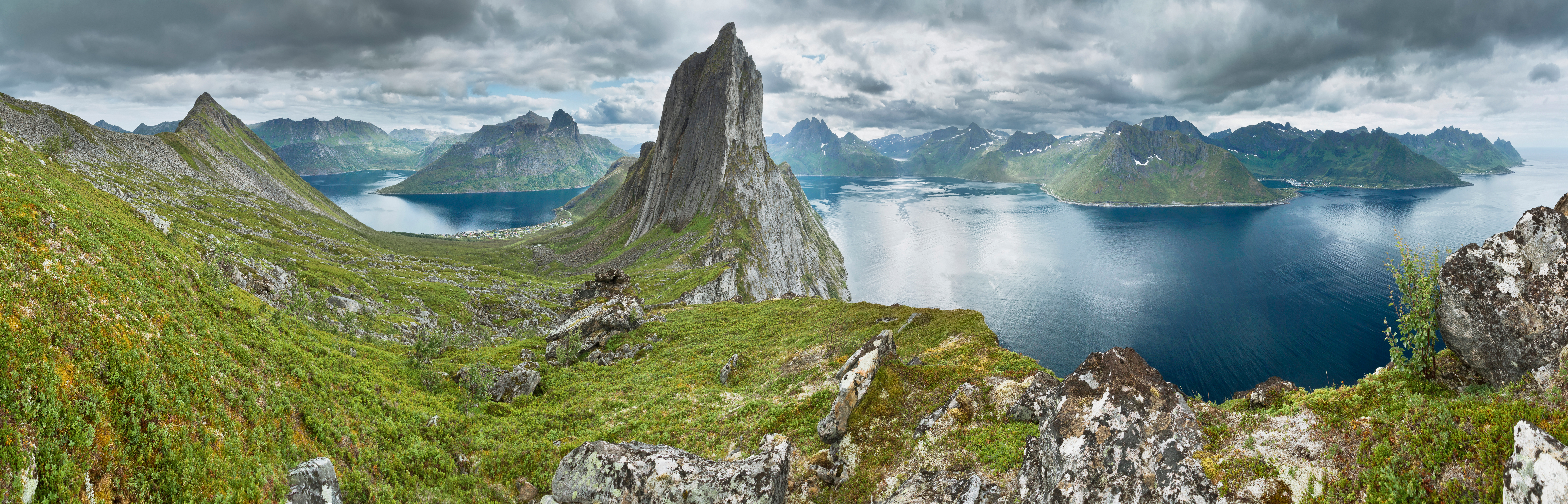 A panoramic view from a ridge located between Segla and Hesten mountain summits in the island of Senja, Troms, Norway in 2014 August. The fjord to the left is Øyfjorden with its sounds Trælvika and Ørnfjorden. The fjord to the right is Mefjorden.